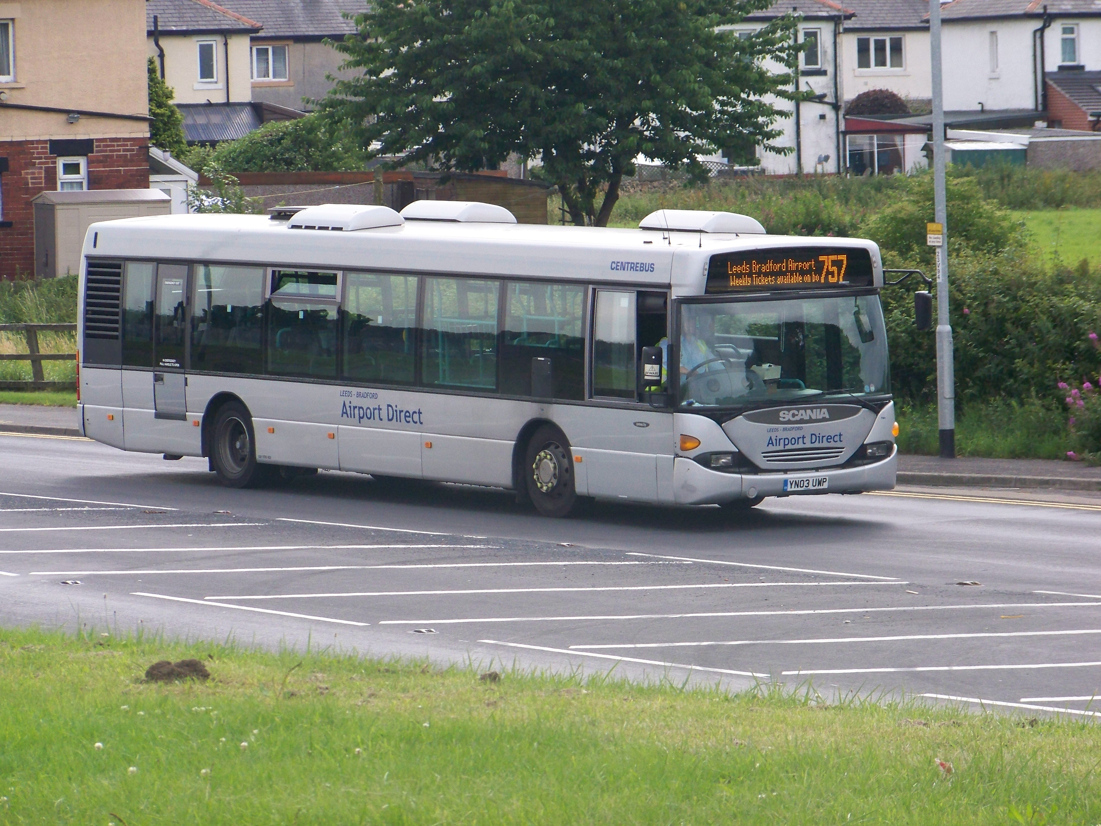 Centrebus Holdings bus 784 (reg. YN03 UWP), pictured in Victoria Avenue, Yeadon, West Yorkshire. It's branded for and operating the airport service route 757 Airport Direct, linking Leeds city centre with Leeds Bradford International Airport, located here in Yeadon. The bus is arriving at the airport and will shortly go under the Victoria Avenue underpass which goes under the north end of the runway. The airport fence is behind the photographer.